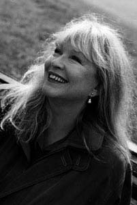 Marina Vlady